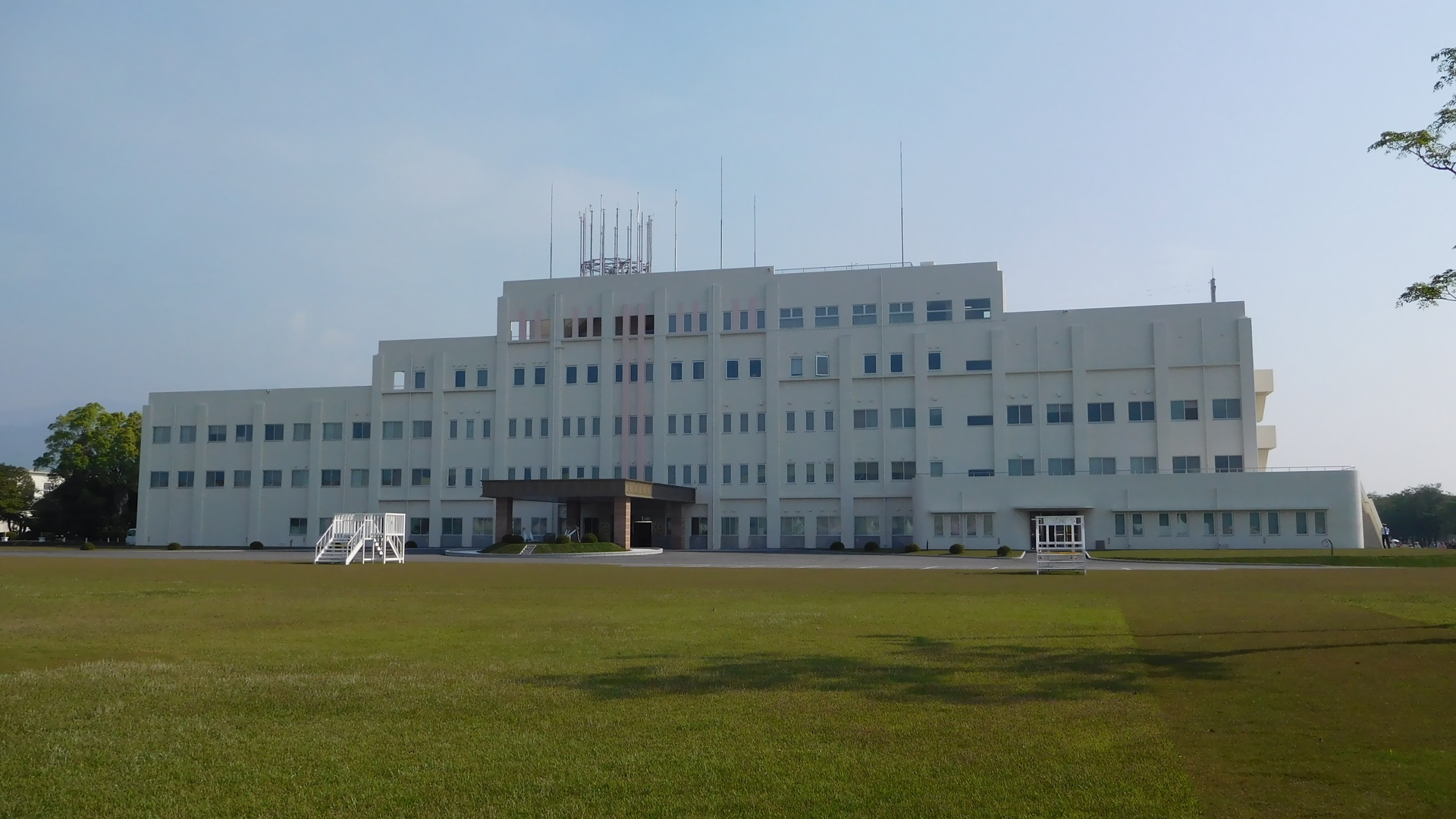 JMSDF Kanoya Air Base - Headquarters of Fleet Air Wing 1 (Kanoya City, Kagoshima Prefecture, Japan)